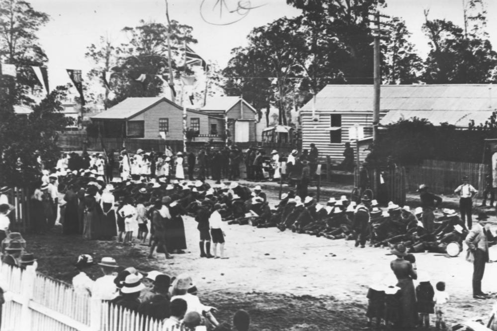 Dungarees resting during a march on Ipswich Road, Moorooka, 1915 The Dungarees were marching from Warwick to Brisbane. (Description supplied with photograph.).